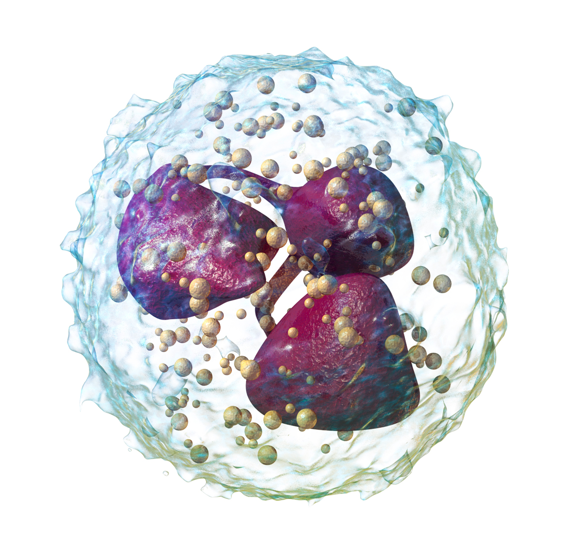 Neutrophil